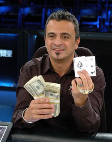 Joseph "Joe" Hachem after winning 2006 WPT Doyle Brunson North American Poker Classic at the Bellagio